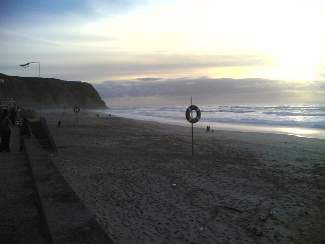 "Praia grande", a beach in Portugal, near Sintra and Mafra